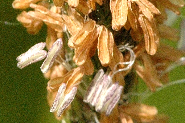 Alopecurus geniculatus from Commanster, Belgian High Ardennes .